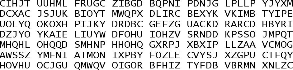 One time pad excerpt. Generated by the computer program PassGen.